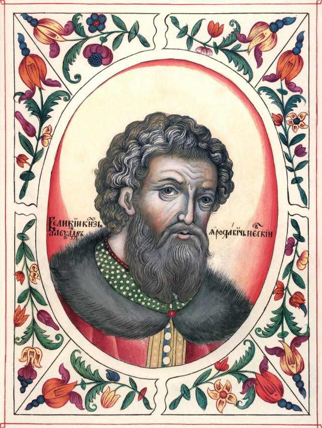 Prince Alexander Nevsky. Miniature from the Tsarskiy titulyarnik (Tsar's Book of Titles).